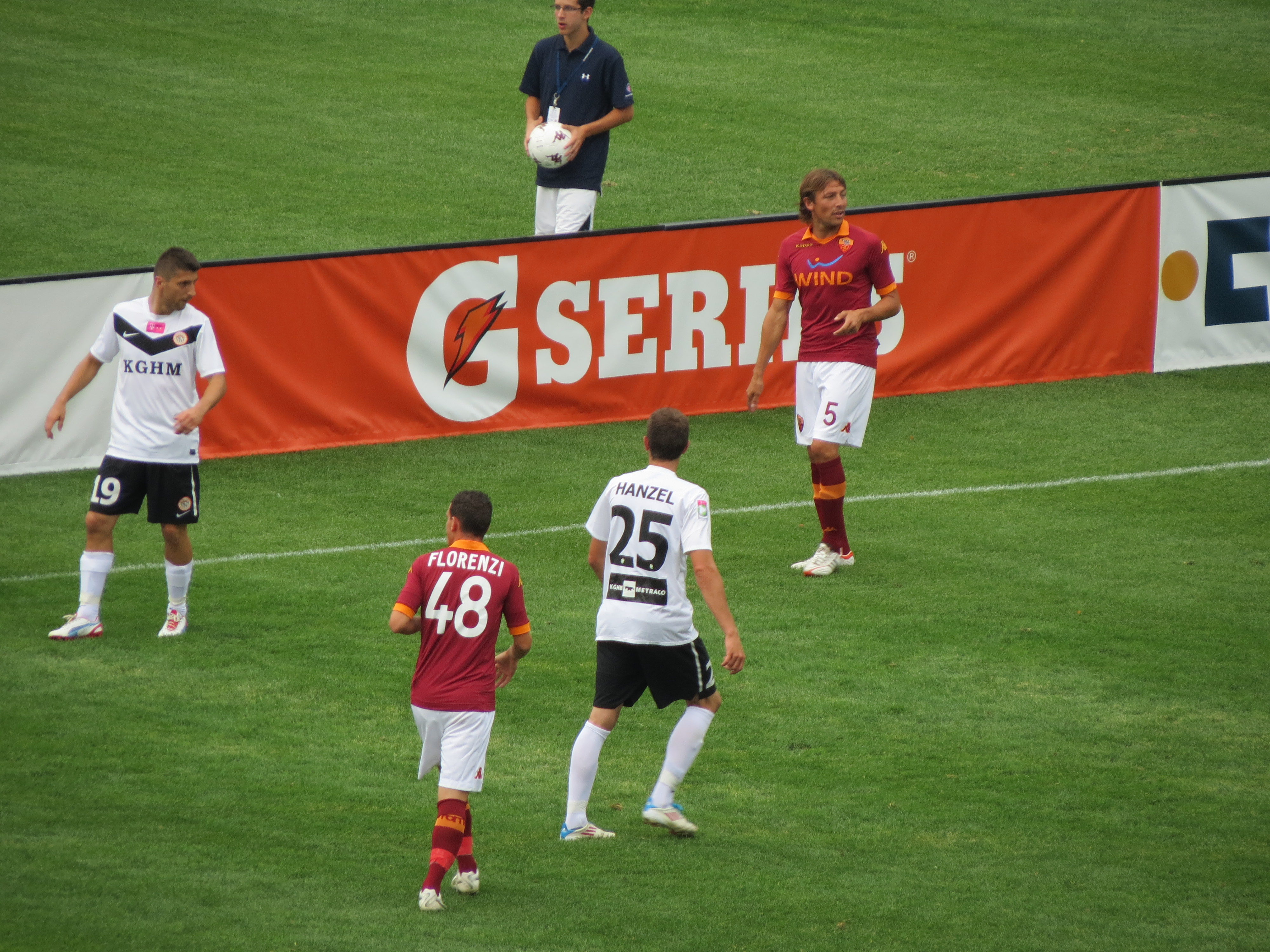 A.S. Roma vs Zagłębie Lubin, Wrigley Field, July 22, 2012